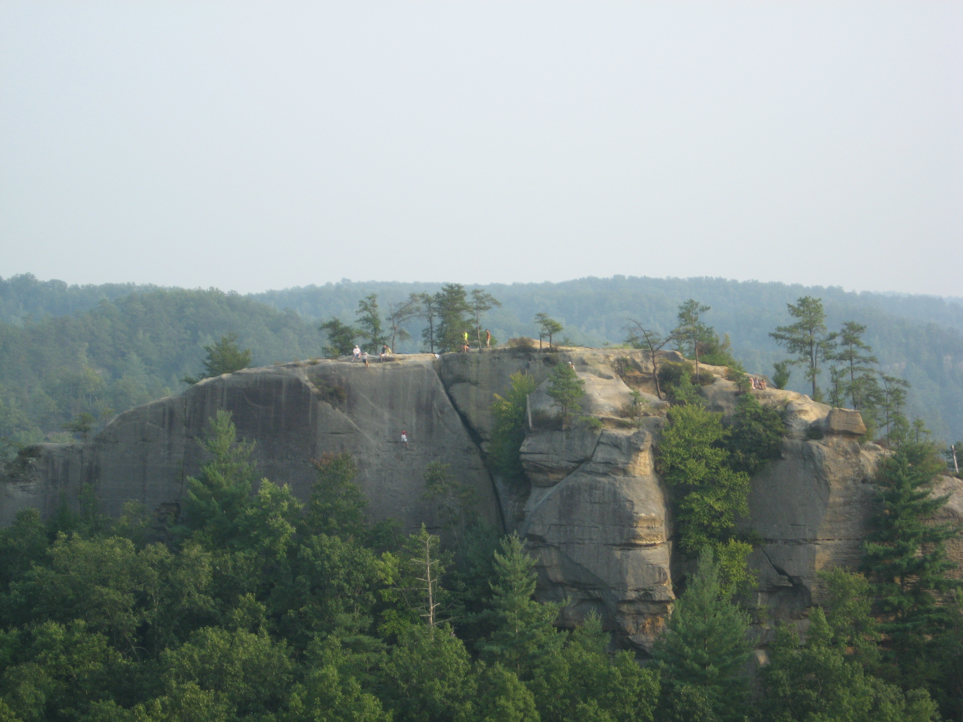 View of half moon from chimney top rock. Fall, 07.